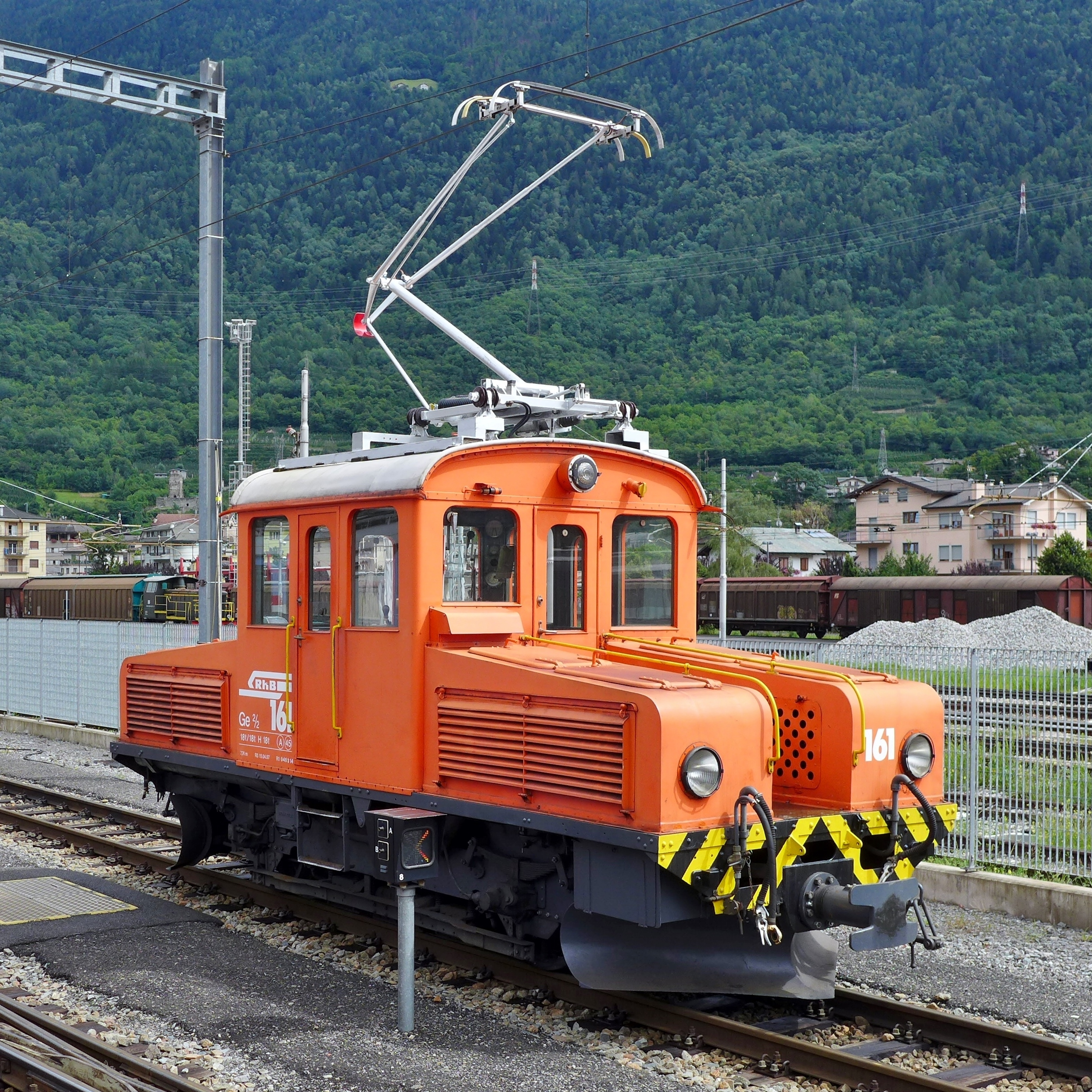 Rhaetian Railway class Ge 2/2 electric shunting locomotive no. 161 at the Rhaetian Railway station in Tirano, Italy.